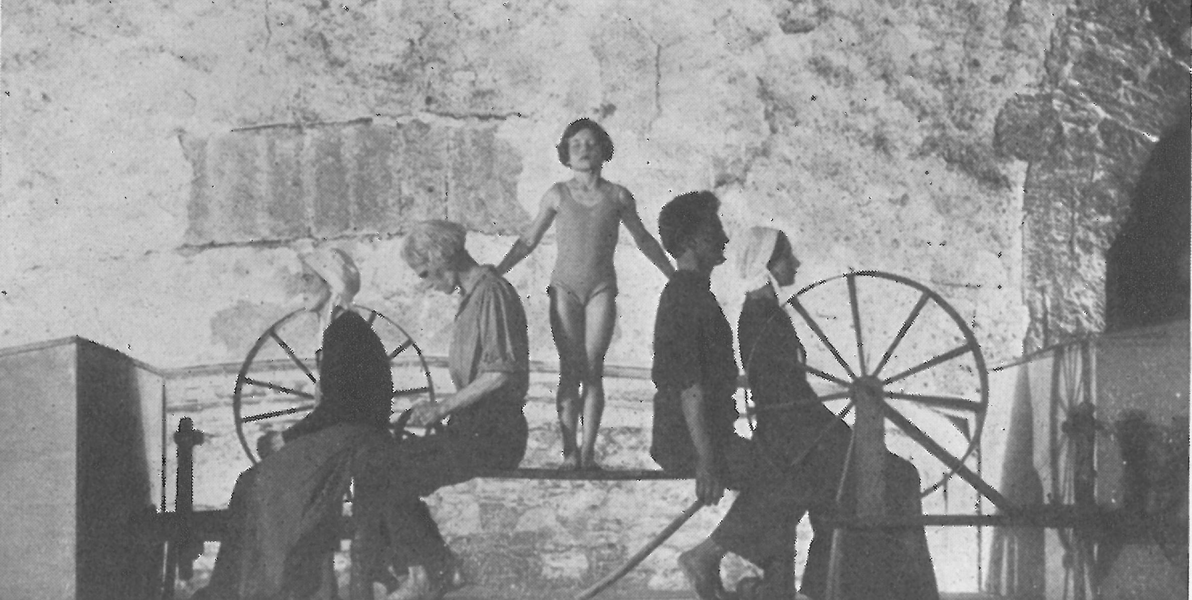 Dance mime choreographed by Margaret Barr while she was head of the School of Dance Mime at Dartington Hall School, Totnes, Devon. Performance in 1931.